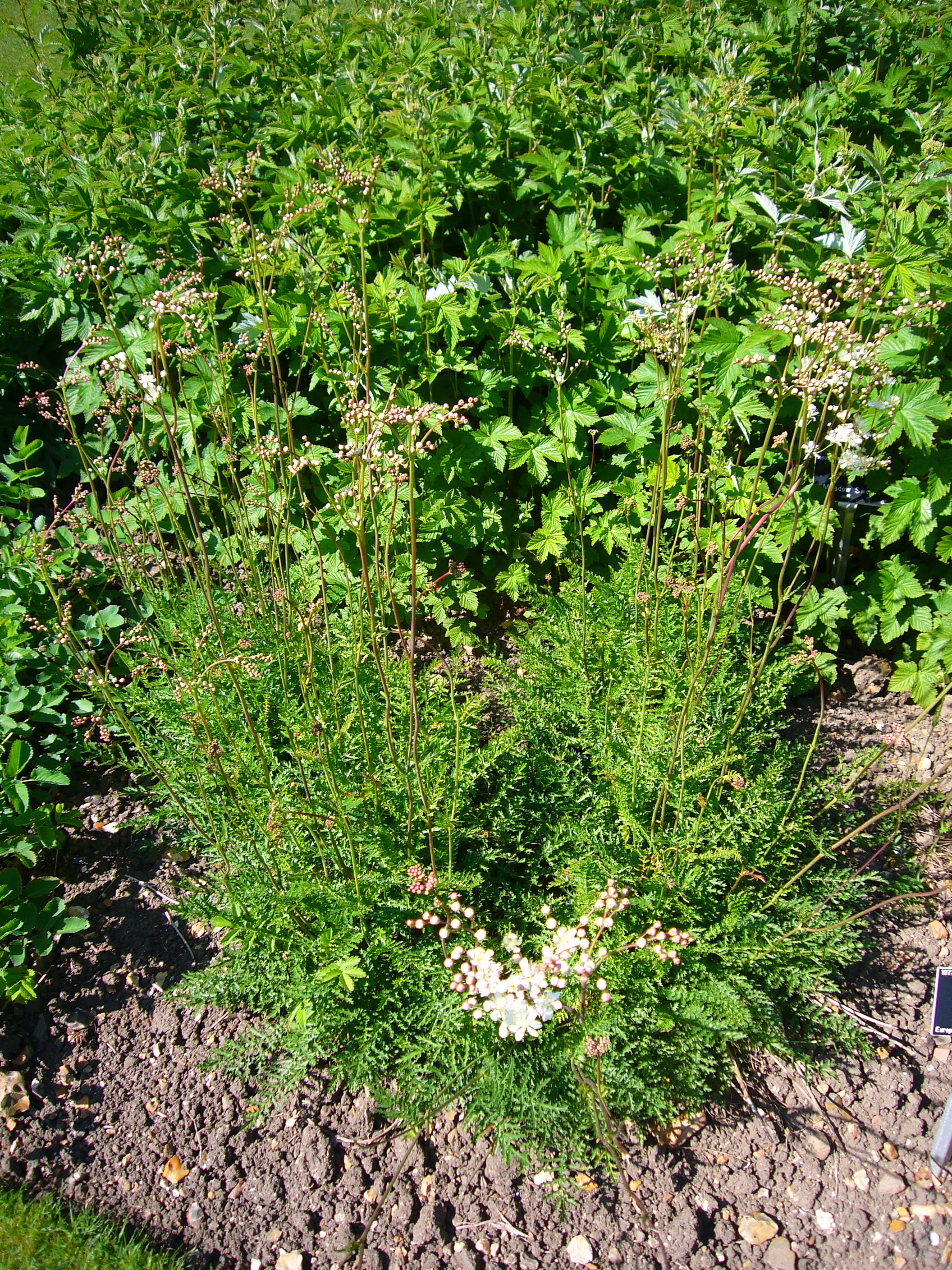 Filipendula vulgaris "Dropwort" (plant) (photo taken in the Cambridge University Botanic Garden)